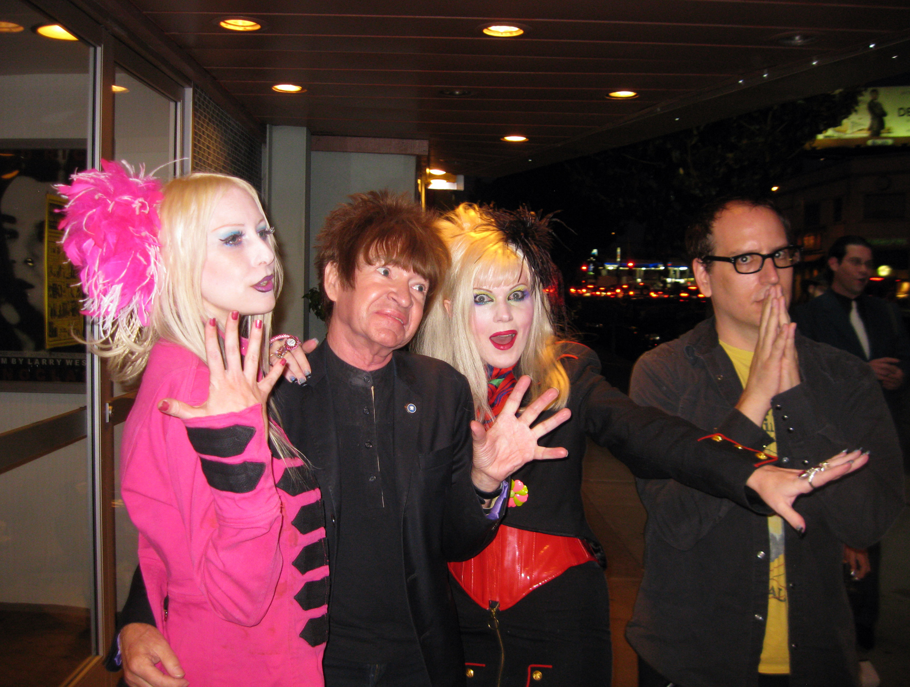 Severa Miles, Rodney Bingenheimer, Giddle Partridge and Dan Kapelovitz at the premiere for Larry Wessel's Boyd Rice documentary Iconoclast at New Beverly Cinema, Los Angeles, 17 August 2010.